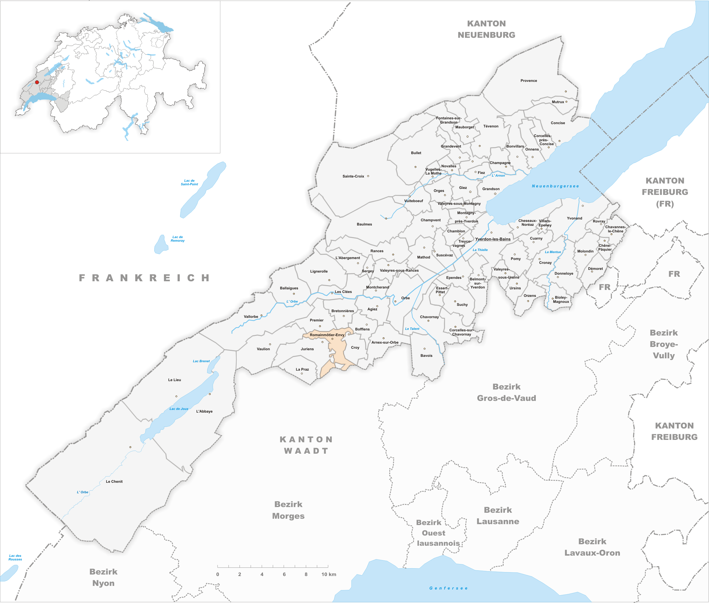 Municipality Romainmôtier-Envy